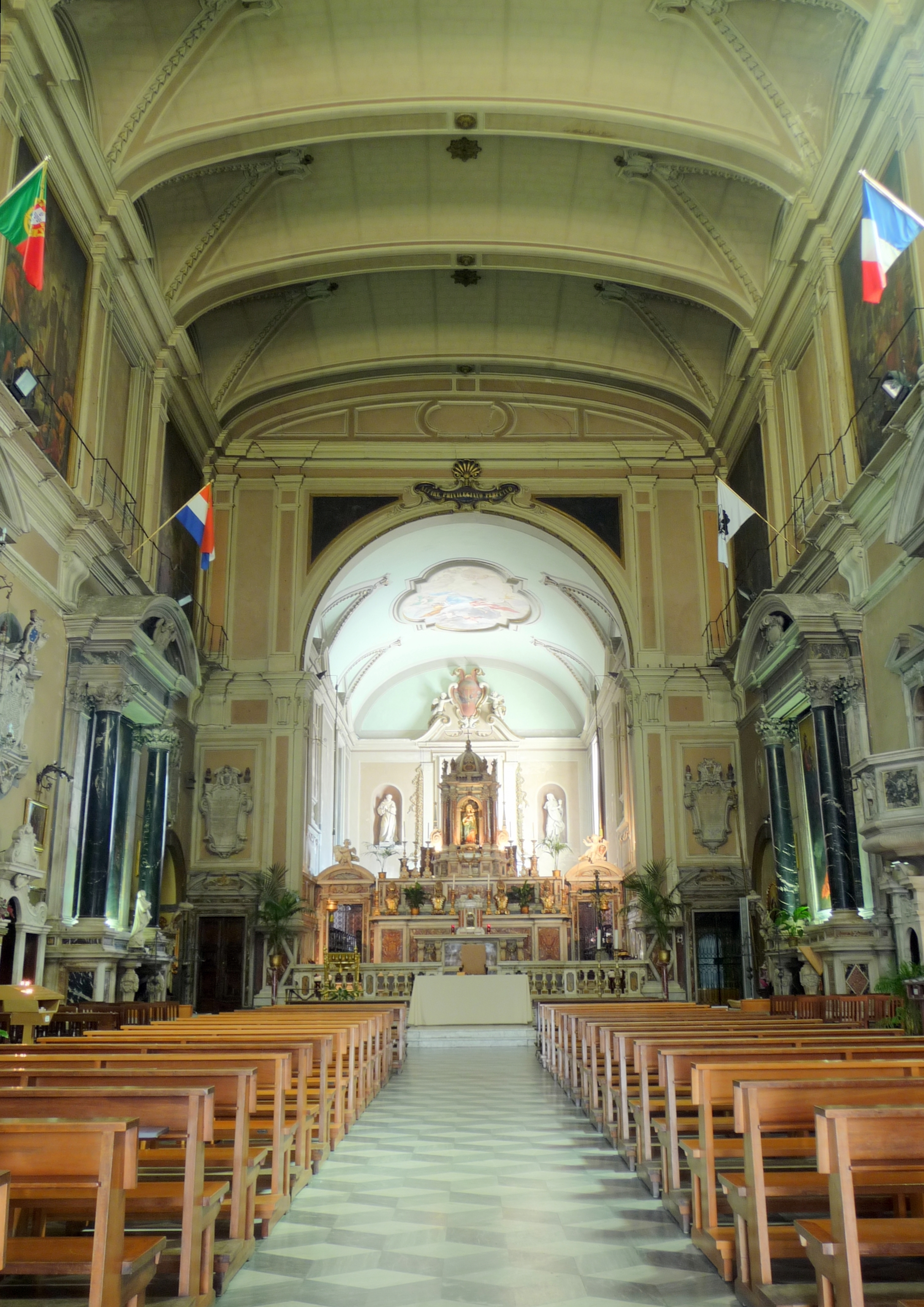 Church Chiesa della Madonna, Livorno, Italy